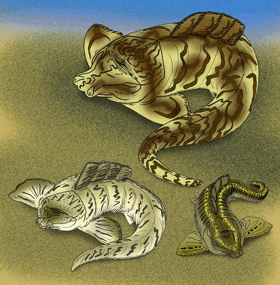 Reconstructions of various Heterosteid arthrodire placoderms from the late Early to Middle Devonian. Clockwise, from top is Heterosteus, Yinosteus, and Herasmius.